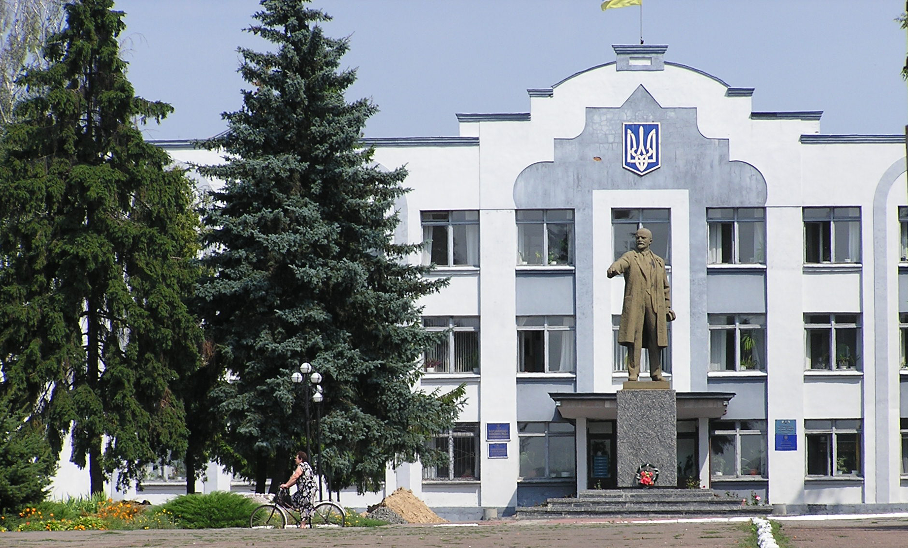 Municipality, Borzna, Ukraine